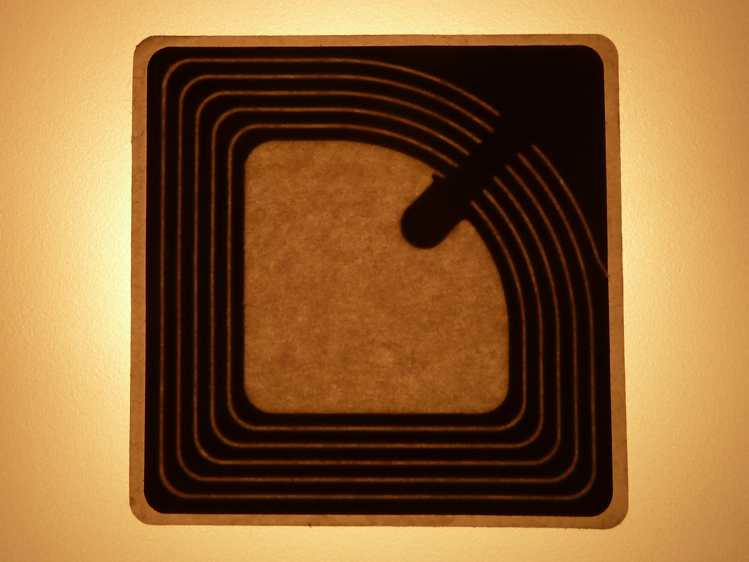 RFID tag of a garment